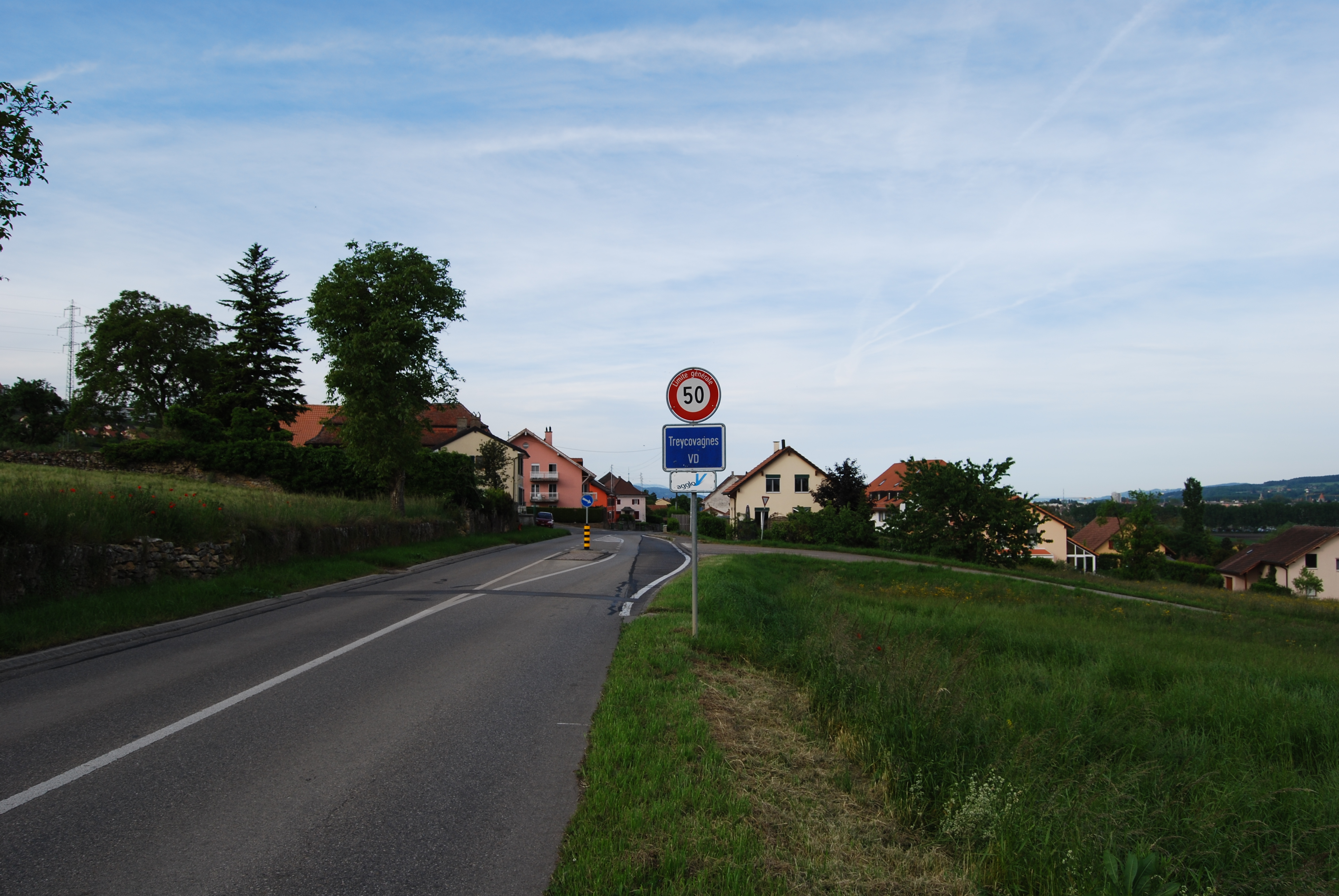 Treycovagnes, canton of Vaud, SwitzerlandEsperanto: Treycovagnes, Kantono Vaŭdo, Svislando